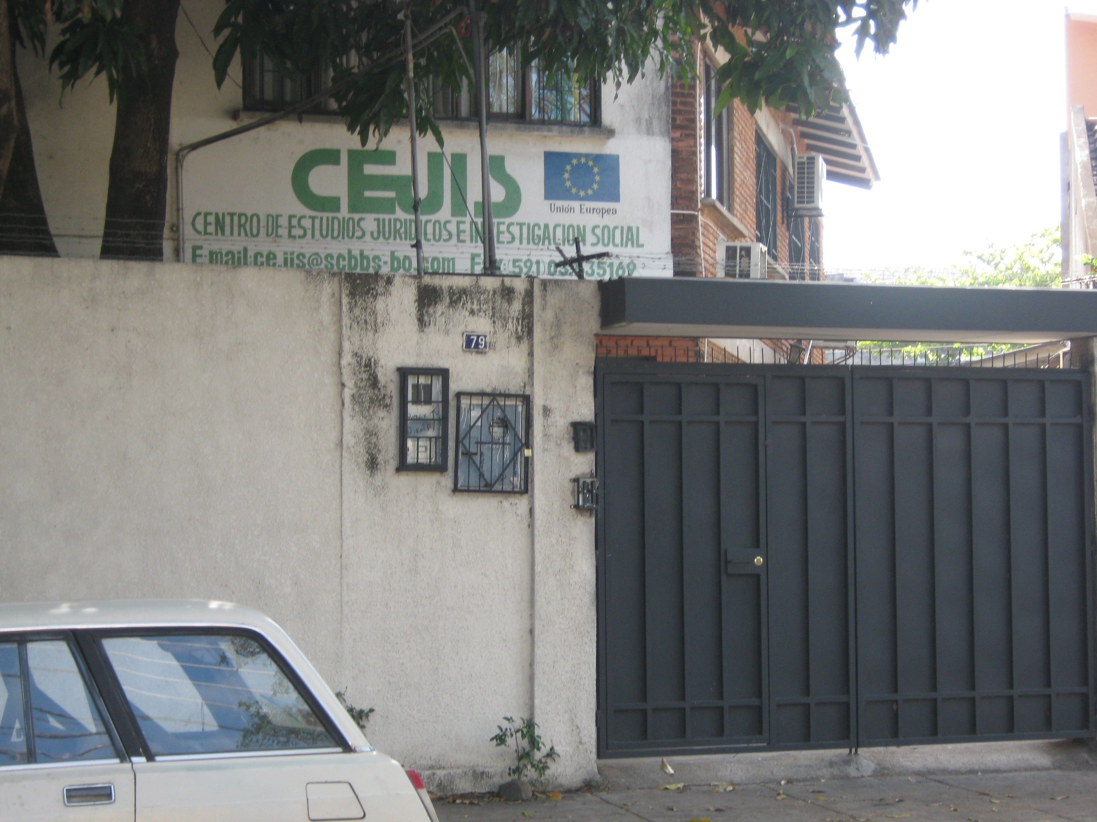 Main Office of the bolivian NGO "CEJIS"